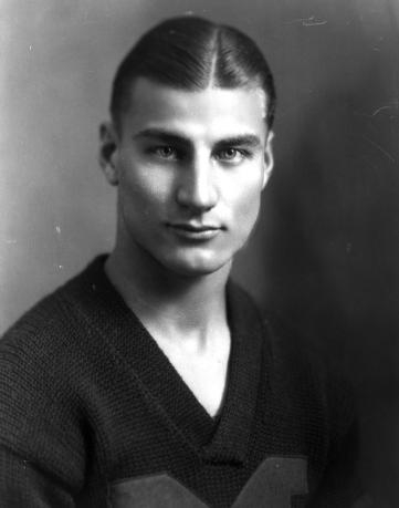 Photograph of Herb Steger This work is in the public domain because it was published in the United States between 1923 and 1963 and although there may or may not have been a copyright notice, the copyright was not renewed. Unless its author has been dead for the required period, it is copyrighted in the countries or areas that do not apply the rule of the shorter term for US works, such as Canada (50 pma), Mainland China (50 pma, not Hong Kong or Macao), Germany (70 pma), Mexico (100 pma), Switzerland (70 pma), and other countries with individual treaties. See Commons:Hirtle chart for further explanation. This work is in the public domain in the United States because it was published in the United States between 1923 and 1977 without a copyright notice. See this page for further explanation. Note that it may still be copyrighted in jurisdictions that do not apply the rule of the shorter term for US works (depending on the date of the author's death), such as Canada (50 p.m.a.), Mainland China (50 p.m.a., not Hong Kong or Macao), Germany (70 p.m.a.), Mexico (100 p.m.a.), Switzerland (70 p.m.a.), and other countries with individual treaties.